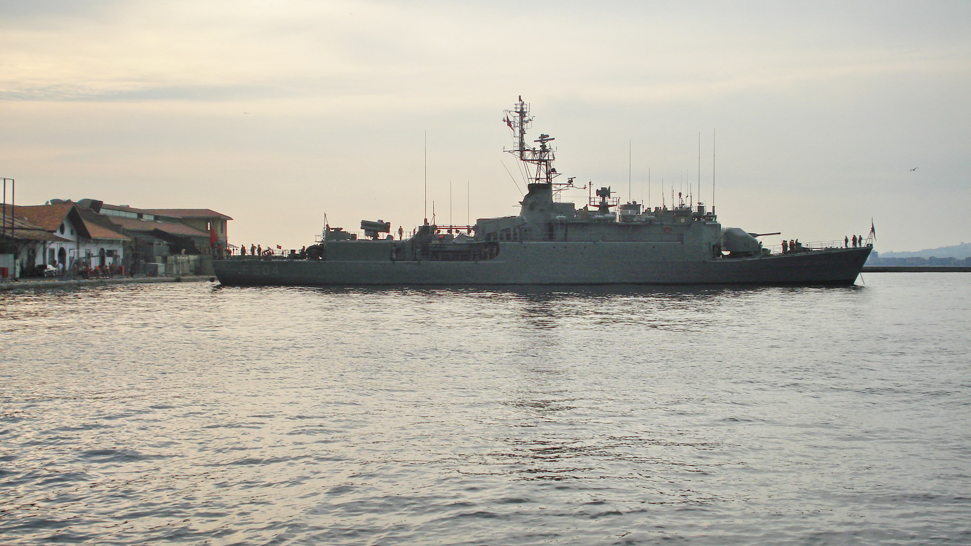 B class corvette TCG Bartın (F-504) at Konak, Izmir